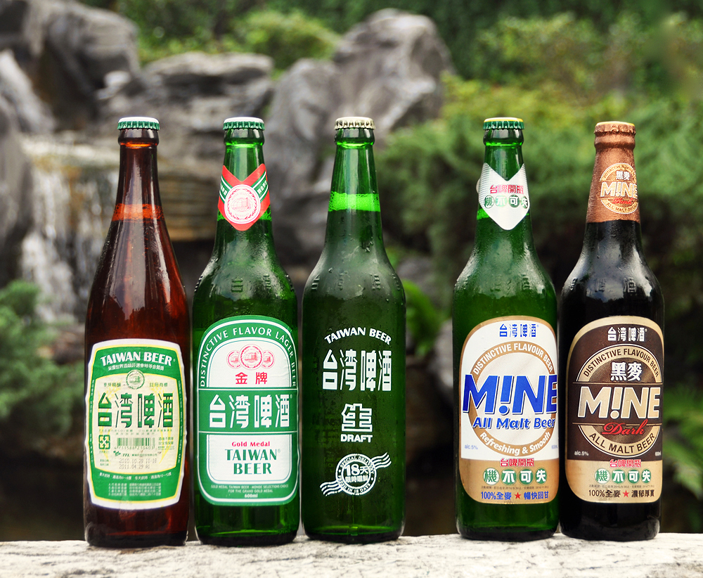 Taiwan Beer sells three lager brews (Original, Gold Medal, Draft) and two malts (Mine Amber, Mine Dark).